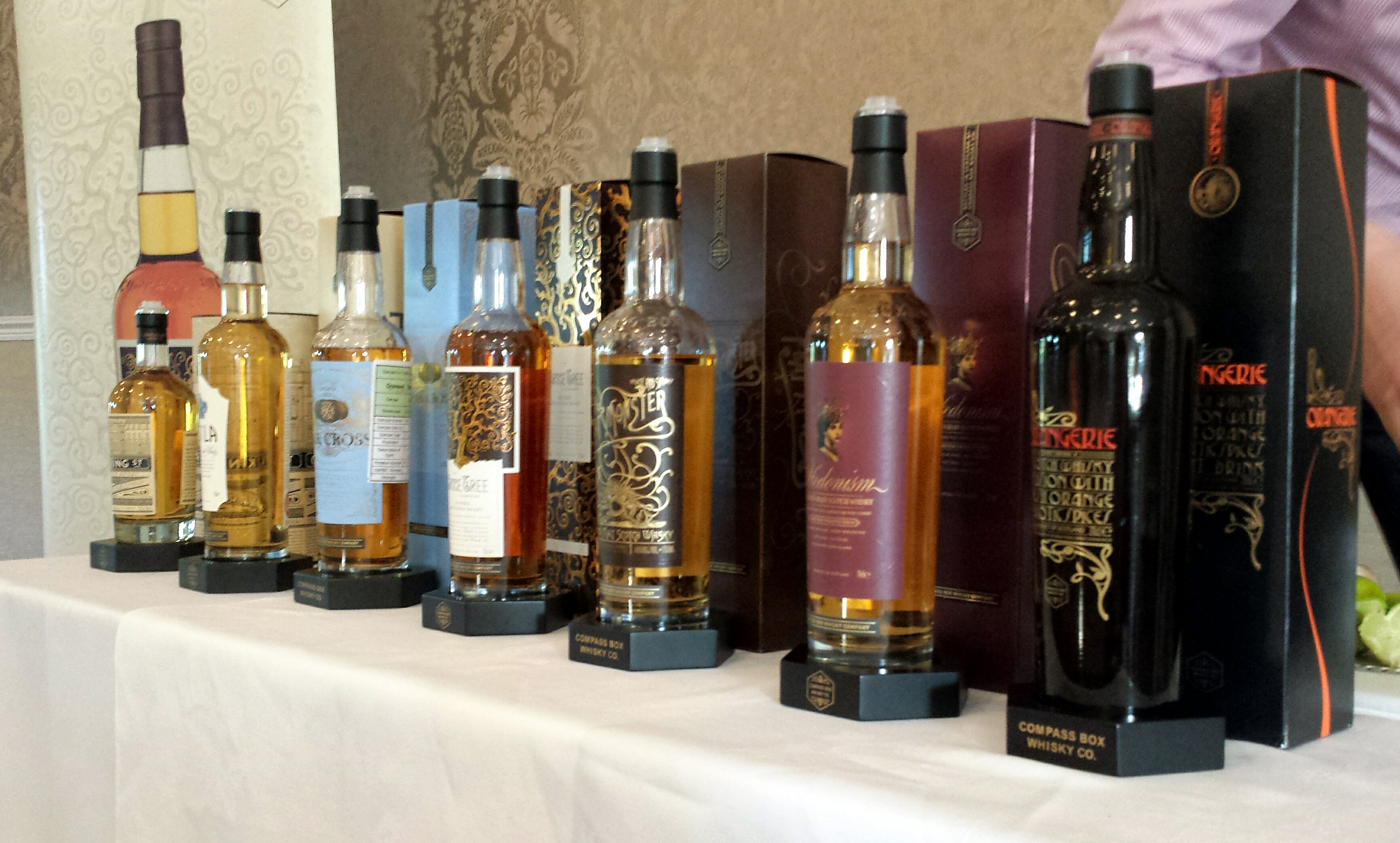 Compass Box Whisky Tasting with Chris Maybin at Lysses House Hotel in Fareham